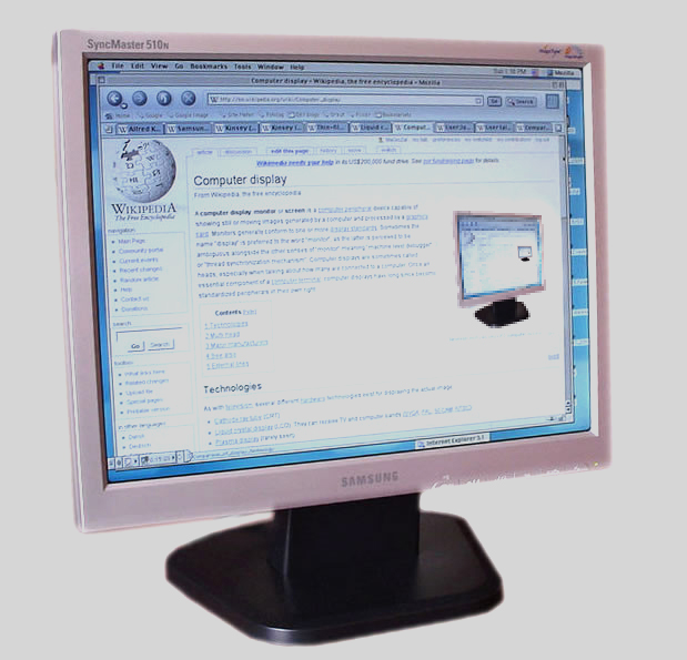 A computer display image with the same computer inside of the page.